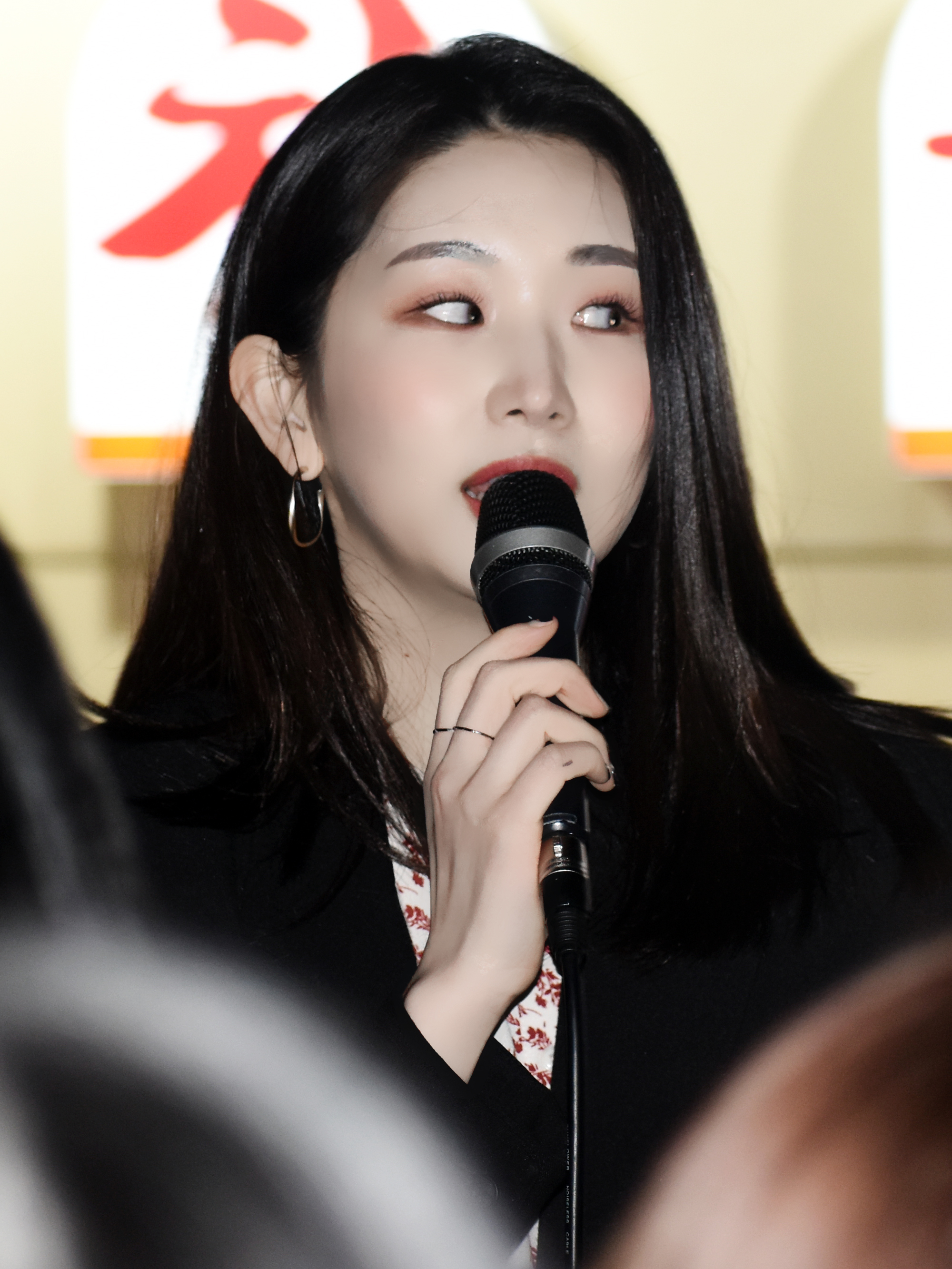 Kassy busking in Hongdae on March 29, 2019.